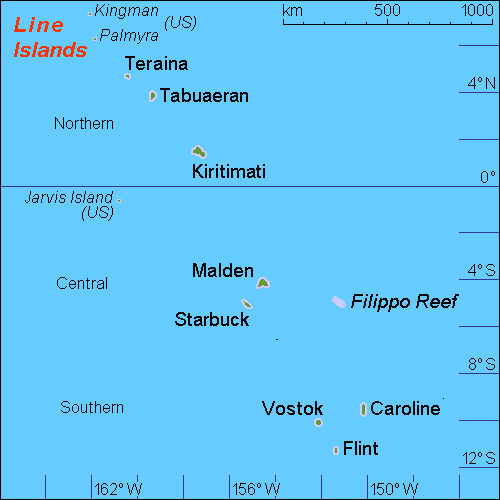 Map (rough) of the Line Islands, Kiribati, own work composed from various mapreferences